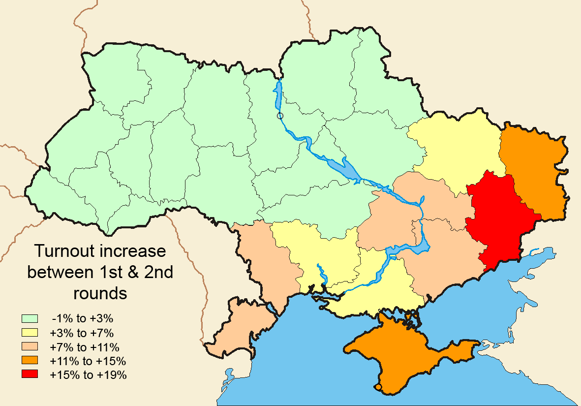 Ukrainian Presedential Elections of 2004, showing voter turnout increase between 1st and run-off rounds